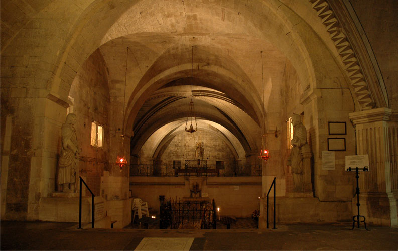 Church of Saint-Gilles. France